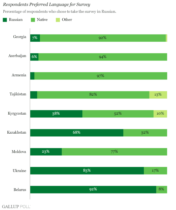 Gallup Poll results underscore the prevalence of national language use over Russian; when asked in what language they preferred to conduct the Gallup interview, only respondents in the Ukraine, Kazakhstan, and Belarus overwhelmingly chose Russian. Ukraine and Kazakhstan retain larger Russian populations. In Belarus, where the interethnic differences between the Belarusians and Russians are minimal, Russian is one of the official languages.